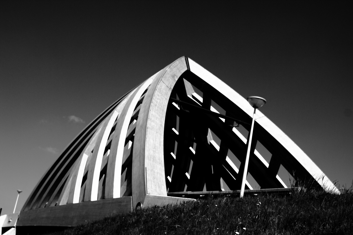 Wooden bridge in Sneek